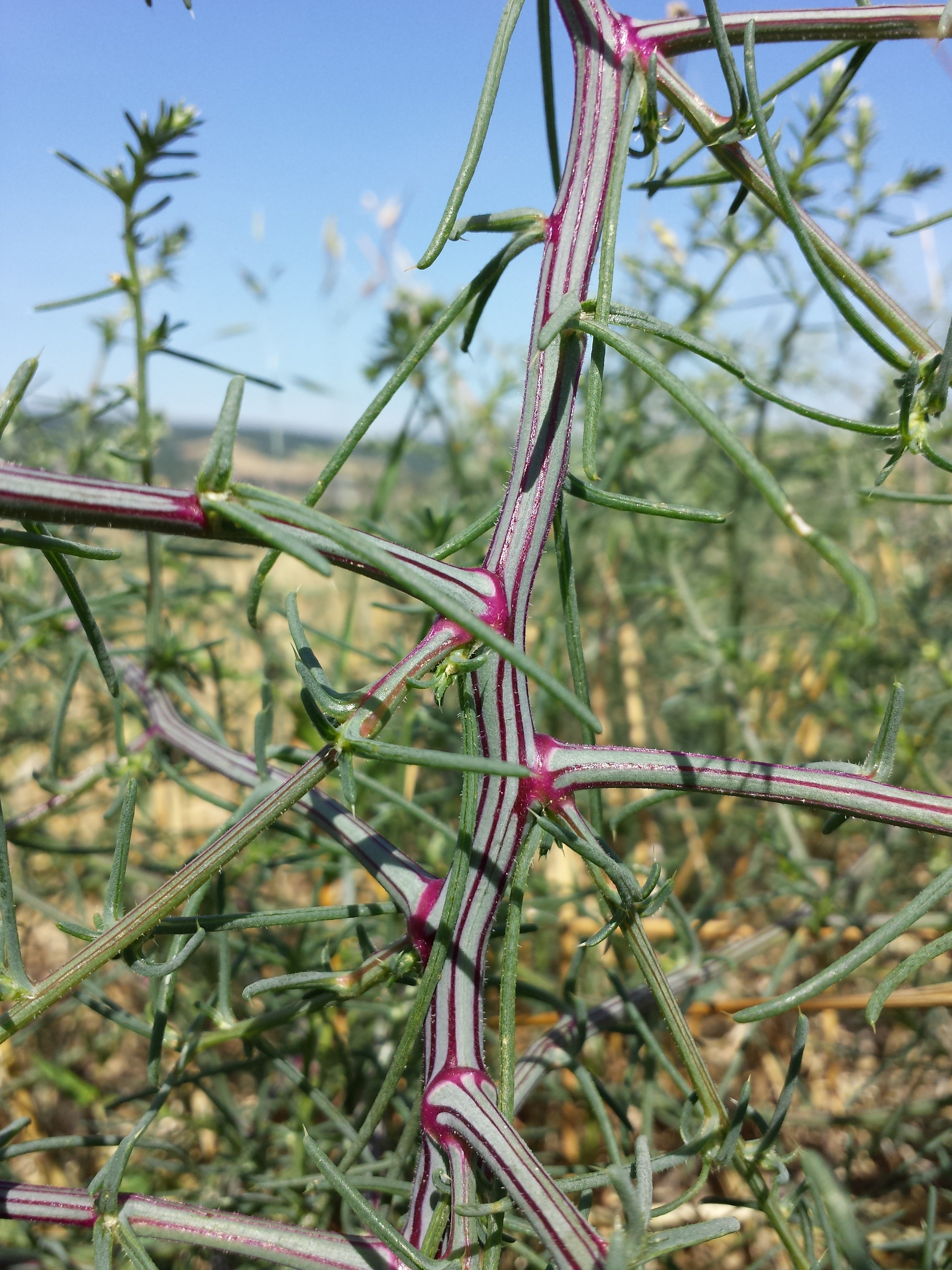 Stipe and branches Taxonym: Kali tragus ss Fischer et al. EfÖLS 2008 ISBN 978-3-85474-187-9 Location: Haulesbergen, district Mistelbach, Lower Austria - ca. 200 m a.s.l. Habitat: field